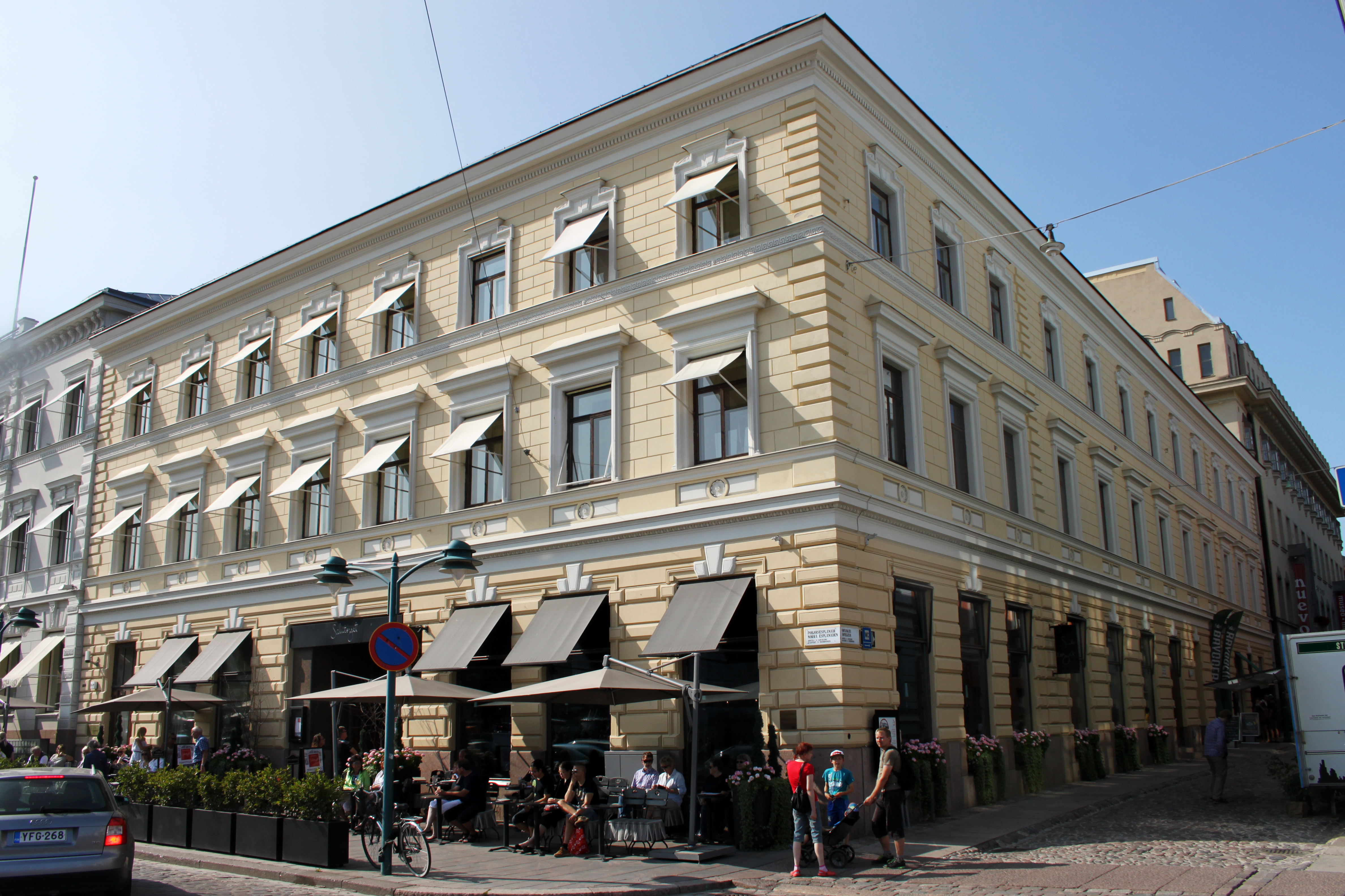 Pohjoisesplanadi 15, Helsinki. Architect Carl Ludvig Engel, built 1830.